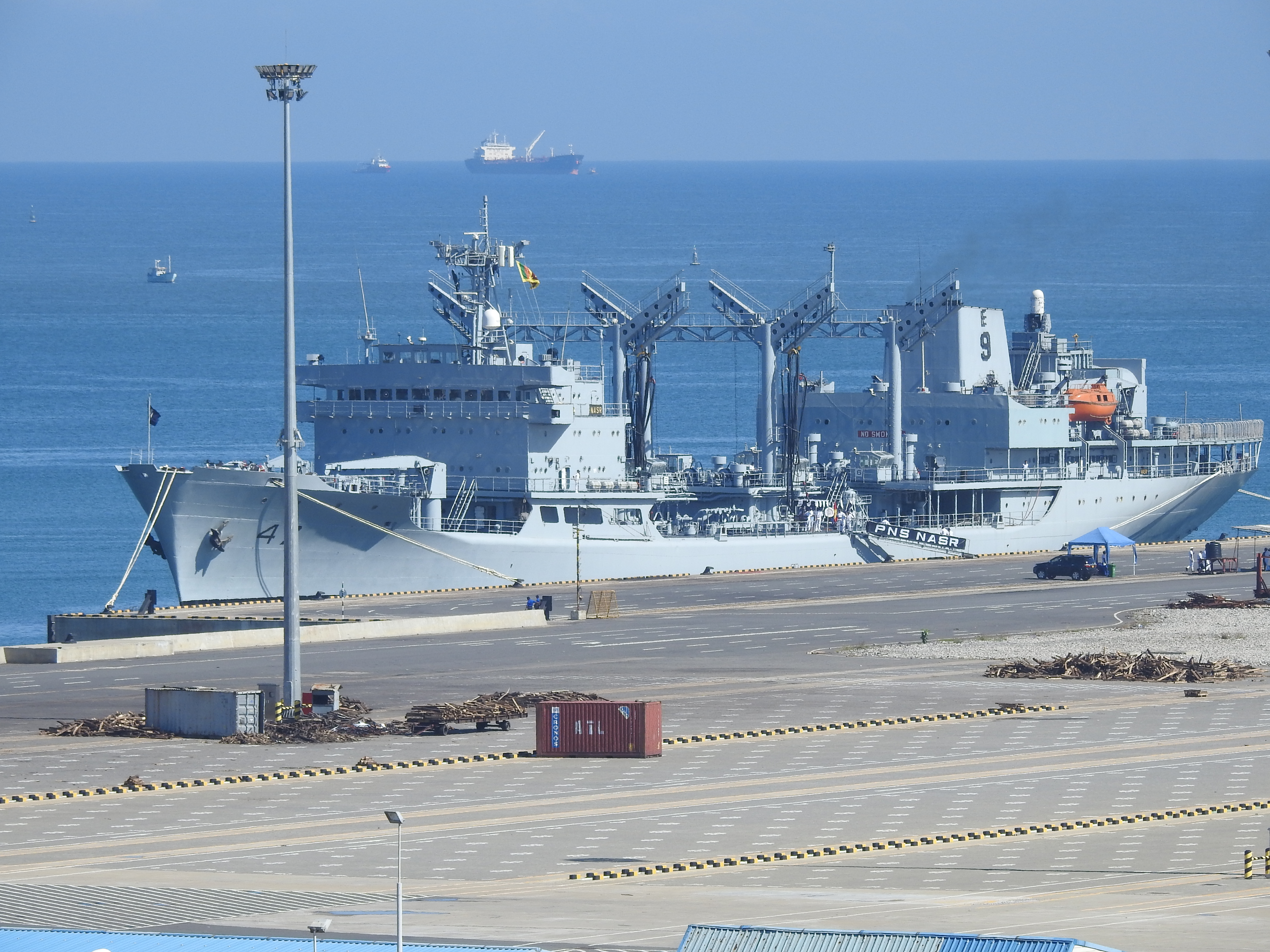 Photos of current/future skyscrapers (and its surroundings) in Colombo, taken by User:Rehman and User:Azeez as part of a photowalk project by Wikimedia Community User Group Sri Lanka. The photowalk covered most of the tallest structures in Colombo that are either completed or under construction. Further information on the subject(s) of the photograph can be found in the category/ies of this file.